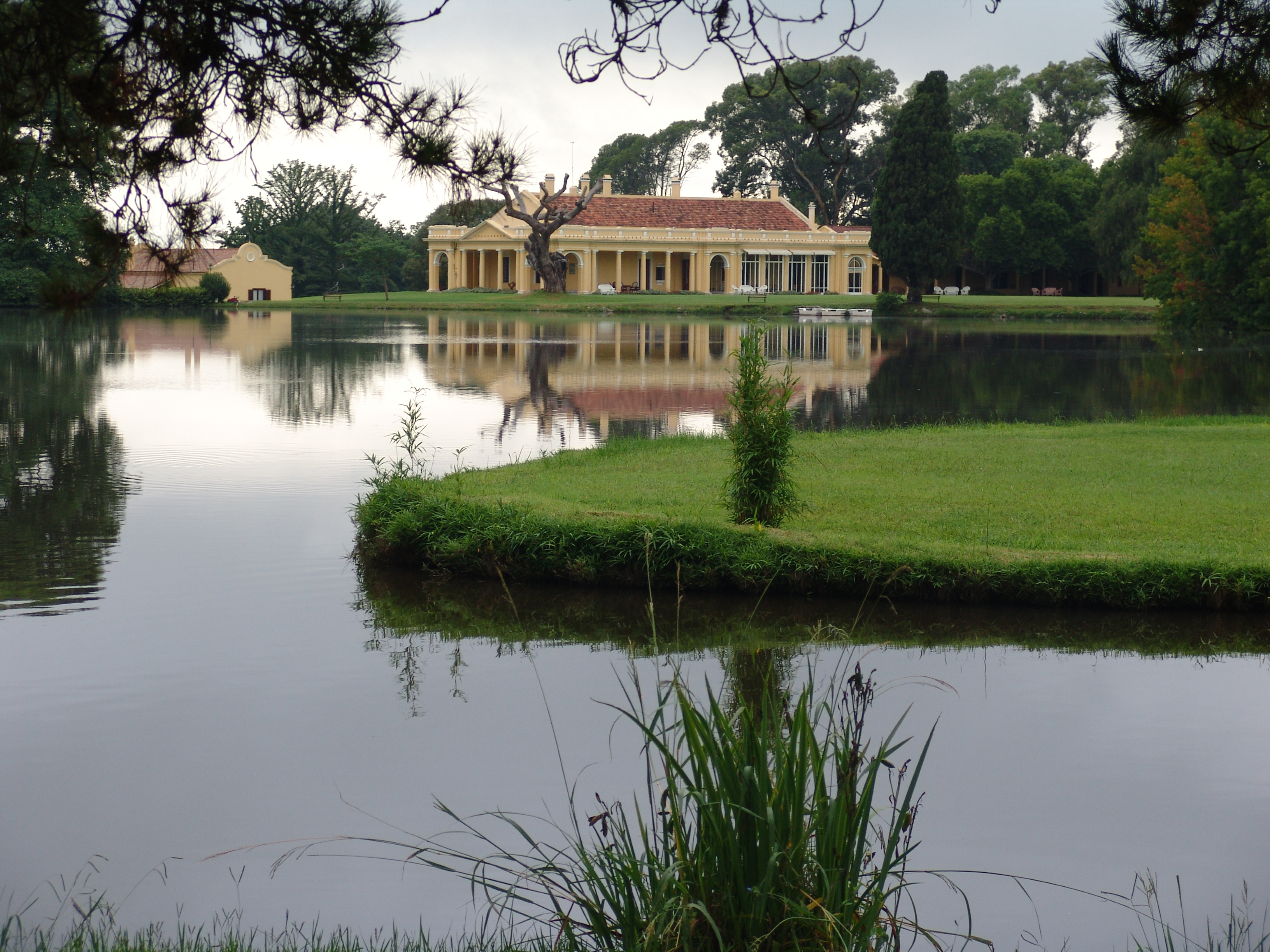 Estancia La Paz, near Jesús María, Córdoba Province, Argentina. The estancia, built in 1830, was once the home of President Julio A. Roca. Roca had its grounds landscaped by French urbanist Charles Thays in 1901. The property was converted into a resort hotel in 2013, and 232 of its 500 hectares redeveloped as a gated community.